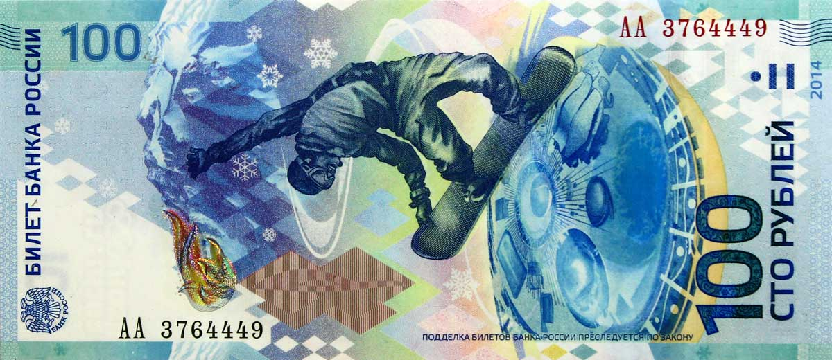 100 roubles commémorant les prochains jeux olympiques de Sotchi, 2014